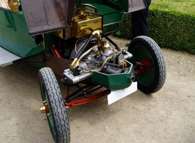 Engine Tatra 11, 12HP, 2-cyl., air cooled, Photo: Ondrej Ertl, Slavkov u Brna, 2004